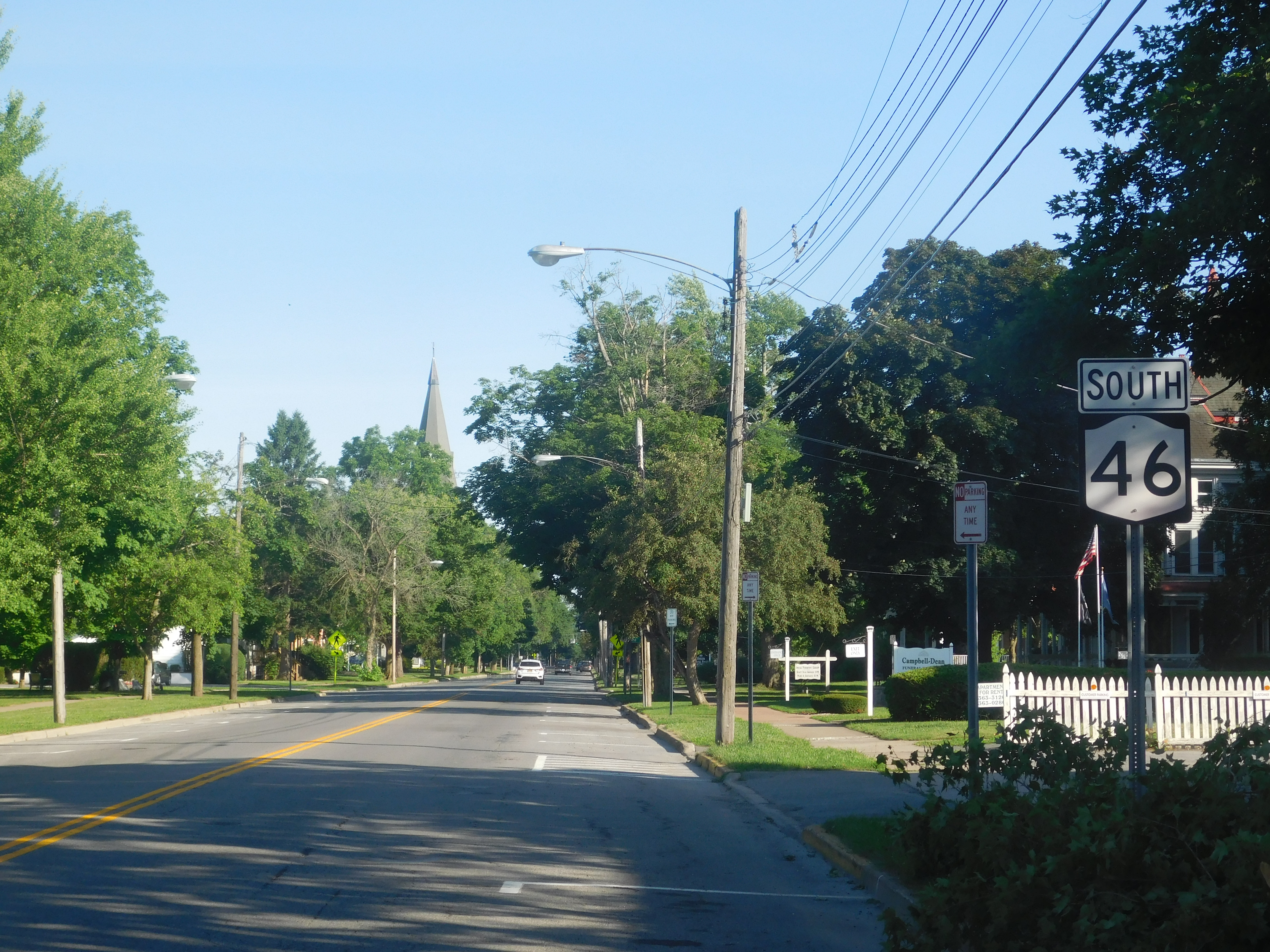 New York State Route 46 southbound in Oneida, New York.